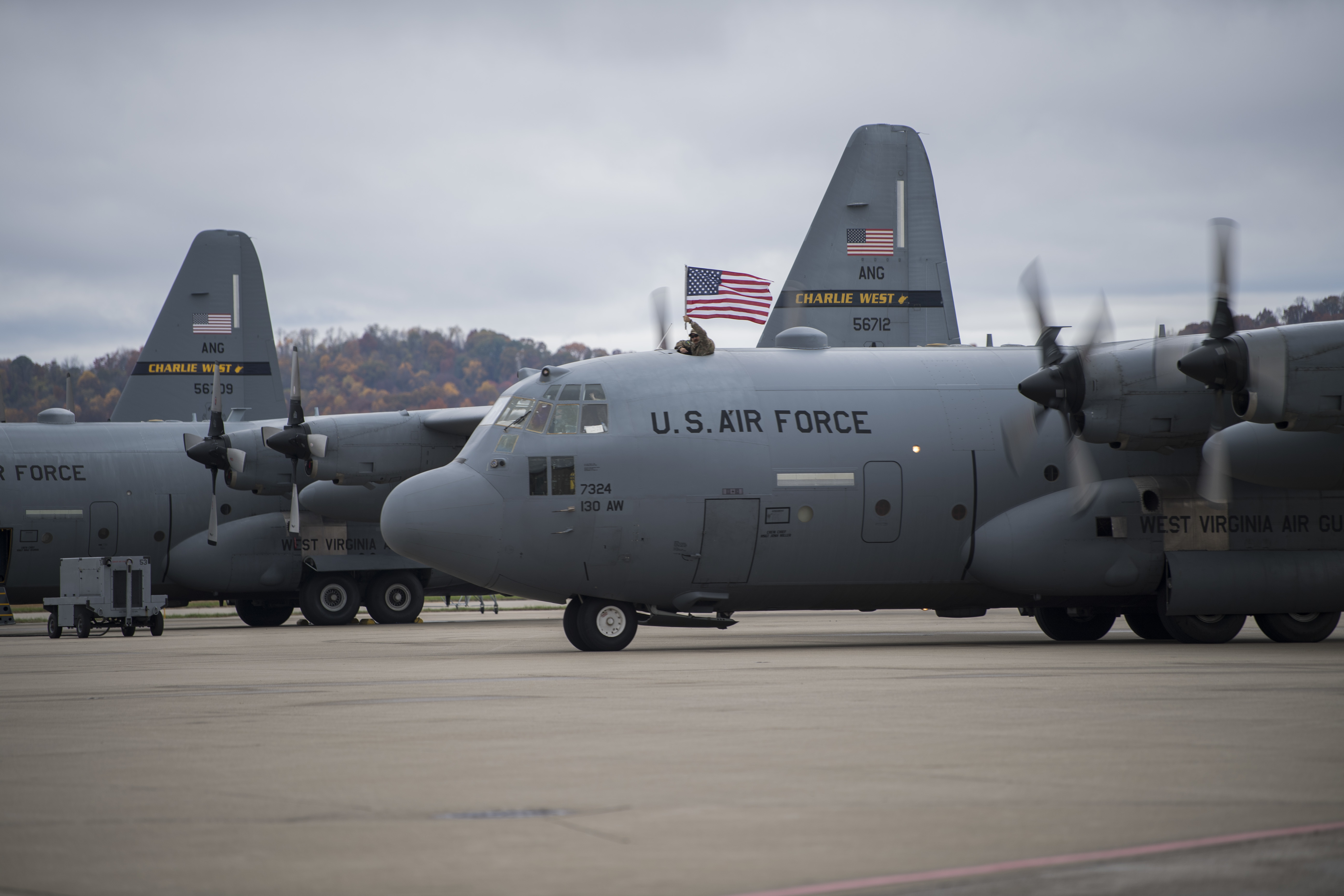 Members of the 130th Airlift Wing return from an overseas deployment Nov. 6, 2017. Family and friends gathered at McLaughlin Air National Guard Base, Charleston, W.Va. to welcome to men and women home from their tour in Southwest Asia. (U.S. Air National Guard photo by Capt. Holli Nelson)